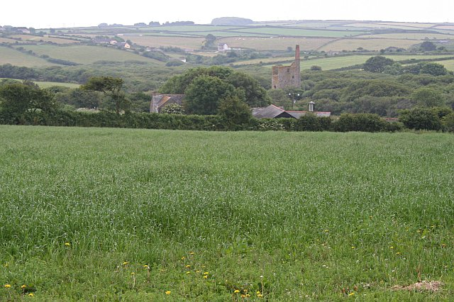 Mine Engine House near Medlyn. Woodland at the bottom of valleys is common in Cornwall as the ground is often too wet to farm, however this woodland also surrounds the derelict mine engine. Another reason for woodland in Cornwall is that the ground is too contaminated with mine waste to farm.